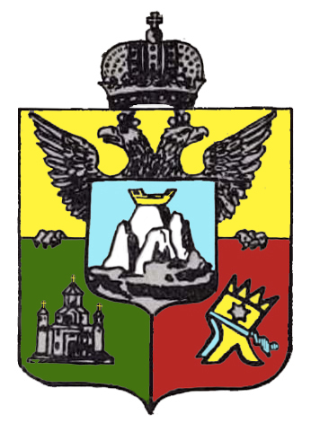 Coat of arms of Armyanskaya Oblast